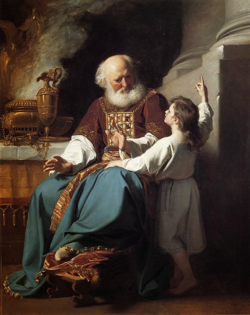 Painting of Samuel Reading to Eli the Judgments of God Upon Eli’s House